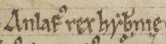 An excerpt from folio 7v of British Library MS Cotton Faustina B IX (the Chronicle of Melrose). The excerpt refers to Amlaíb mac Gofraid, King of Dublin (died 941).